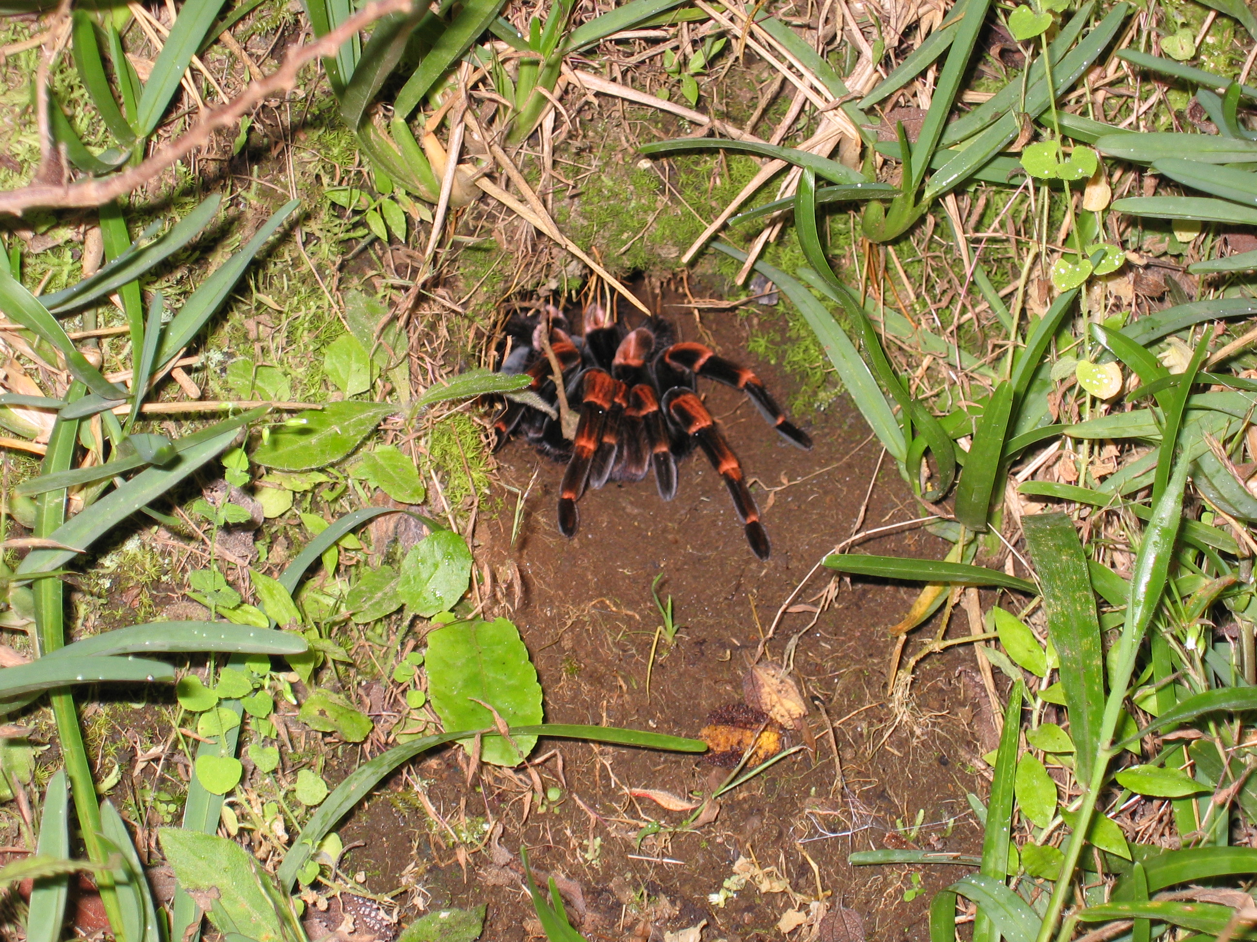 Unidentified Theraphosidae spider — in the Monteverde Cloud Forest Reserve, Puntarenas Province, northwestern Costa Rica. Megaphobema mesomelas Credits Taken by Peter Andersen in Monteverde Costa Rica Sarefo 19:28, 24 April 2006 (UTC)